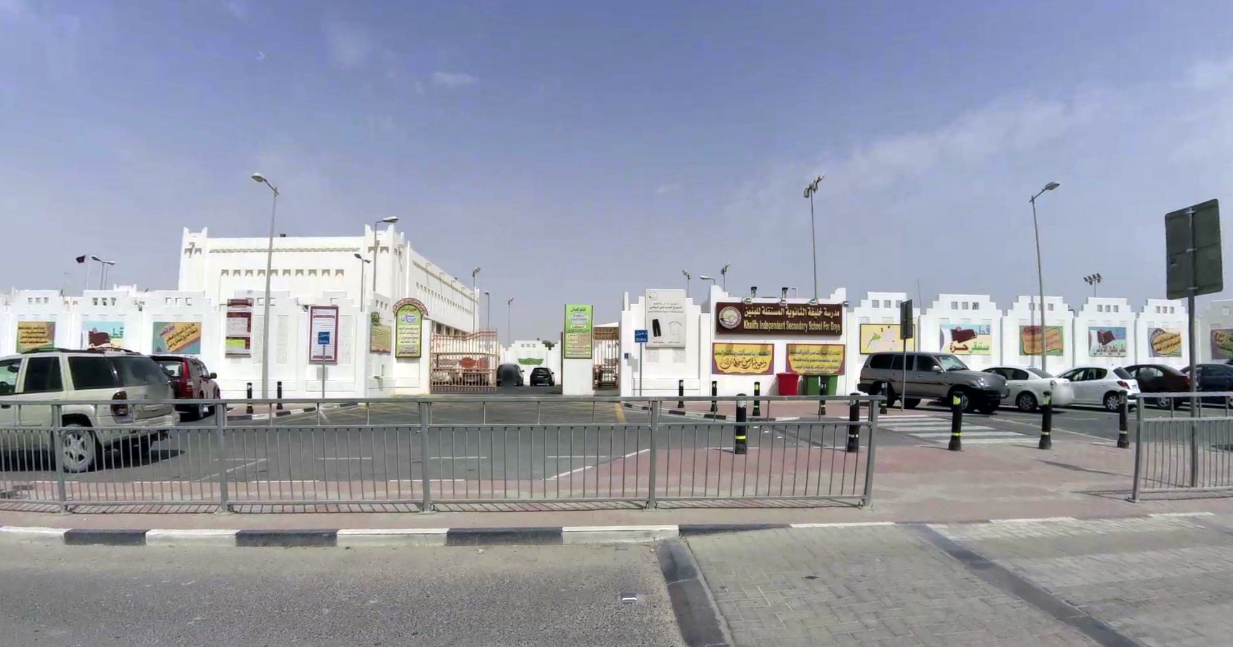 Khalifa Independent Secondary School for Boys on Kahlifa School Street in Madinat Khalifa South district, Doha, Qatar.